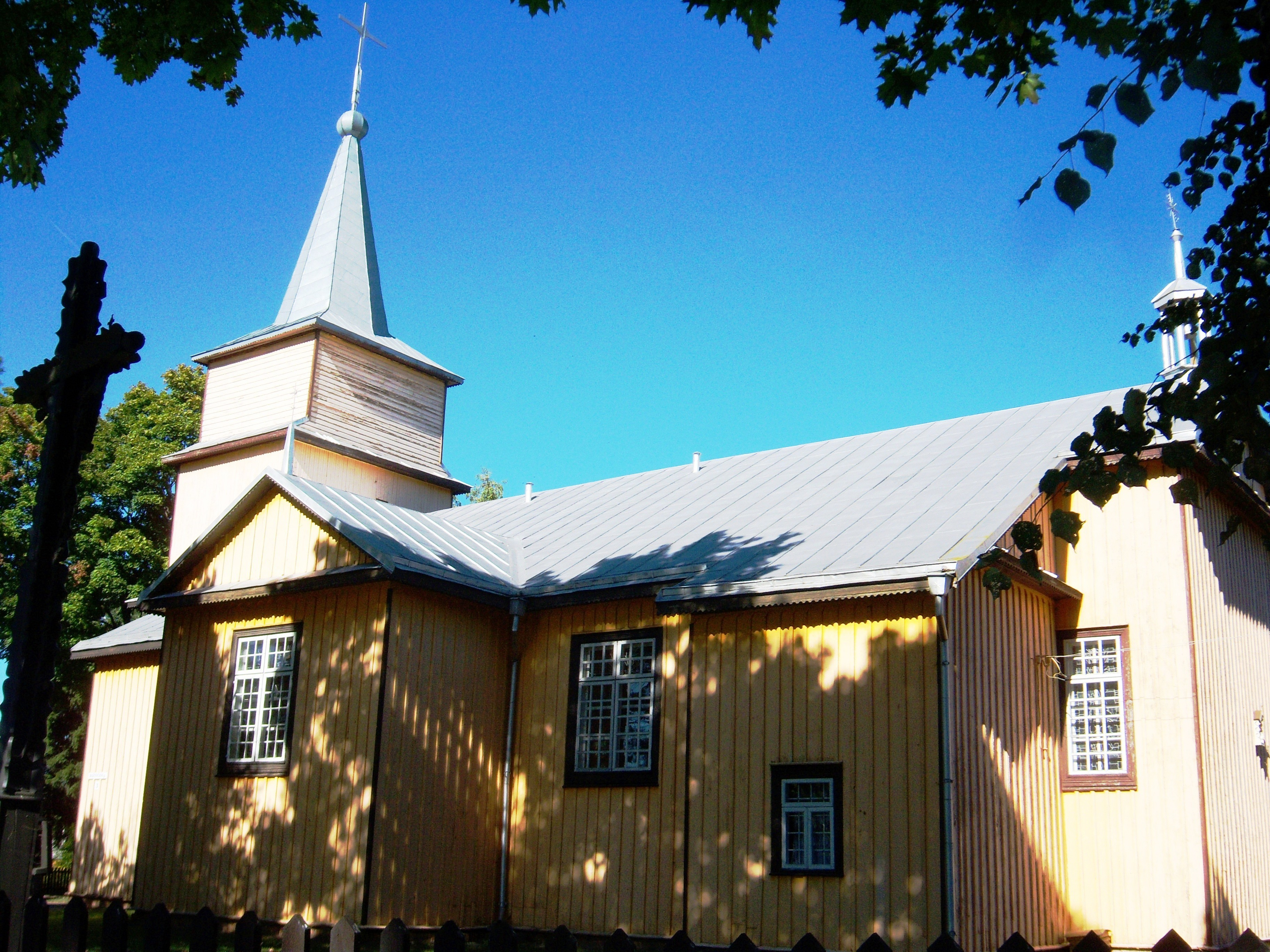 Catholic church in Paluobiai, Šakiai District, Lithuania